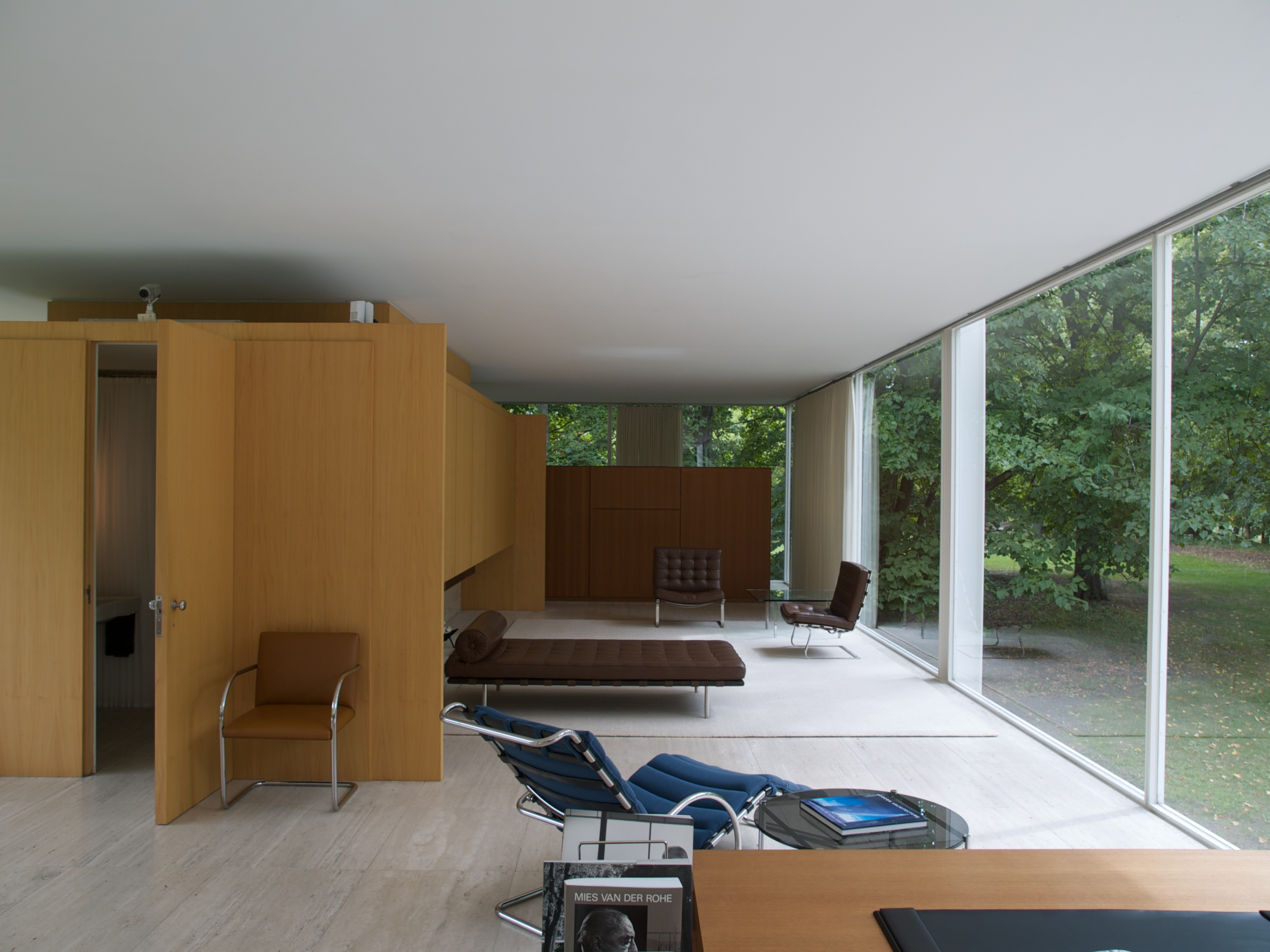 Farnsworth House (Illinois) by Mies van der Rohe